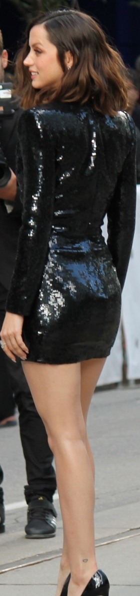 from Ana de Armas at the 2019 Toronto International Film Festival.